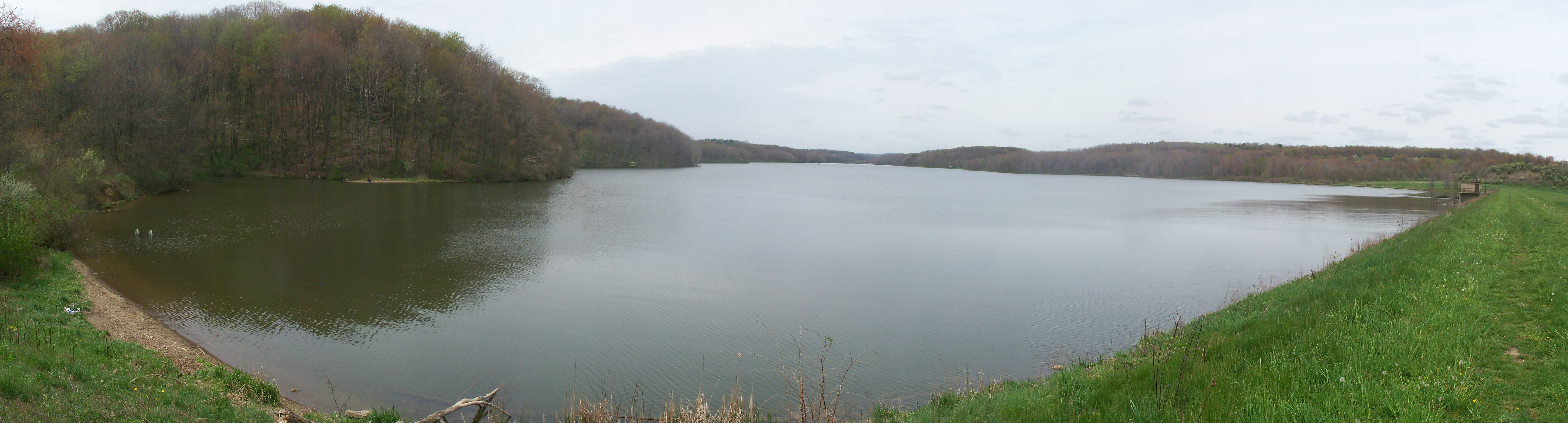 Panorama photo from south end of dam at Highlandtown Lake in Columbiana County, Ohio